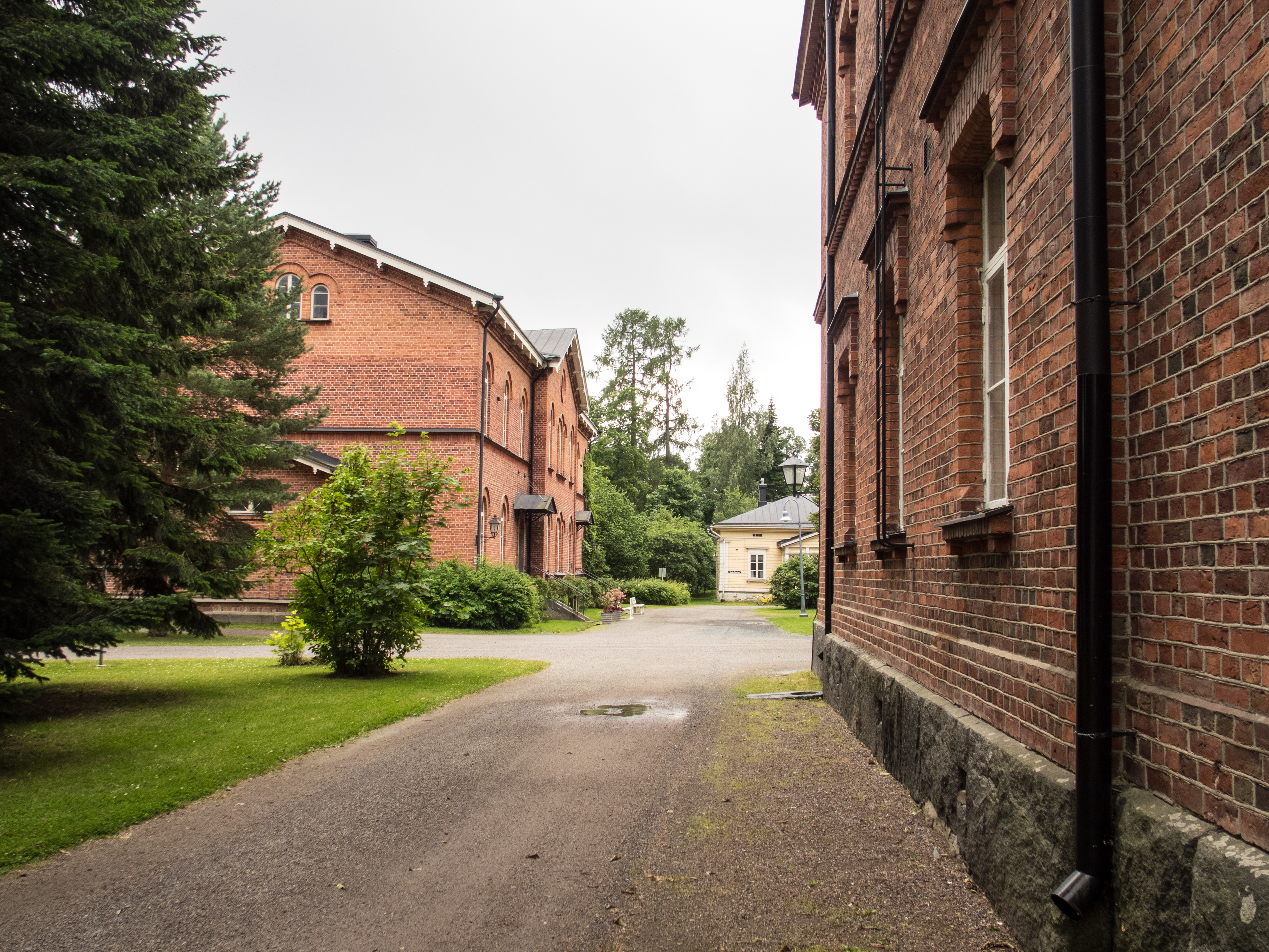 Mustiala agricultural school buildings from the 19th century, Tammela, Finland.